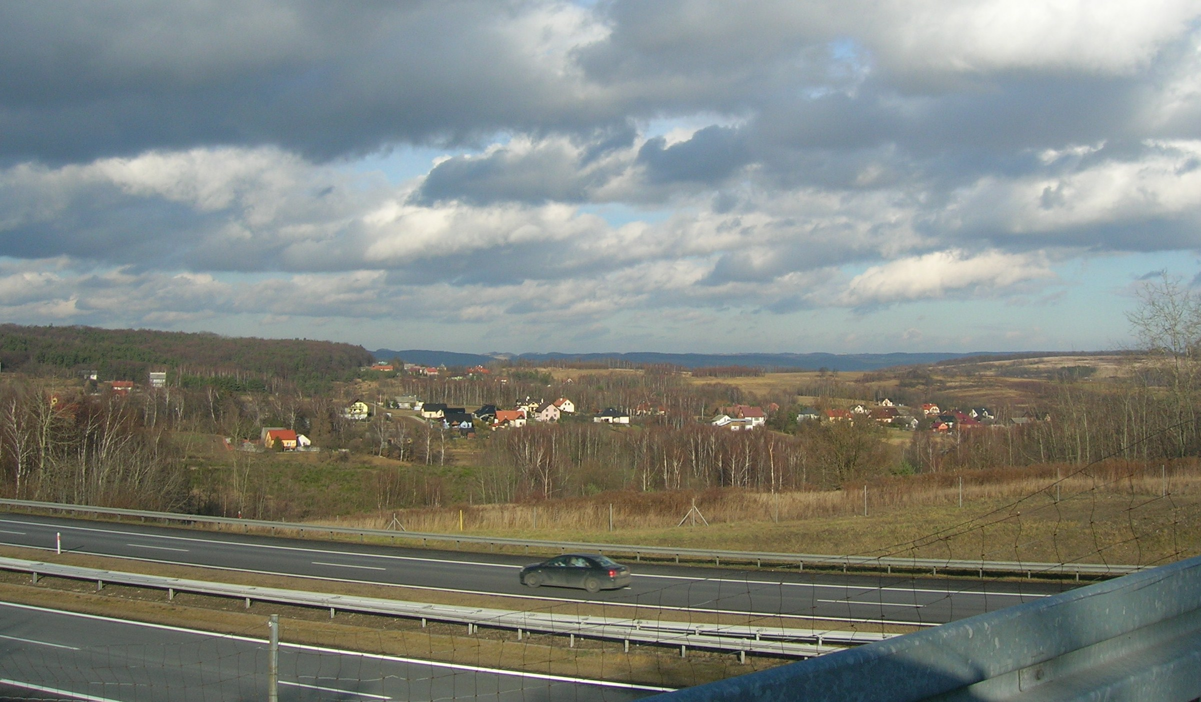 Brzoskwinia. Dwór i A4